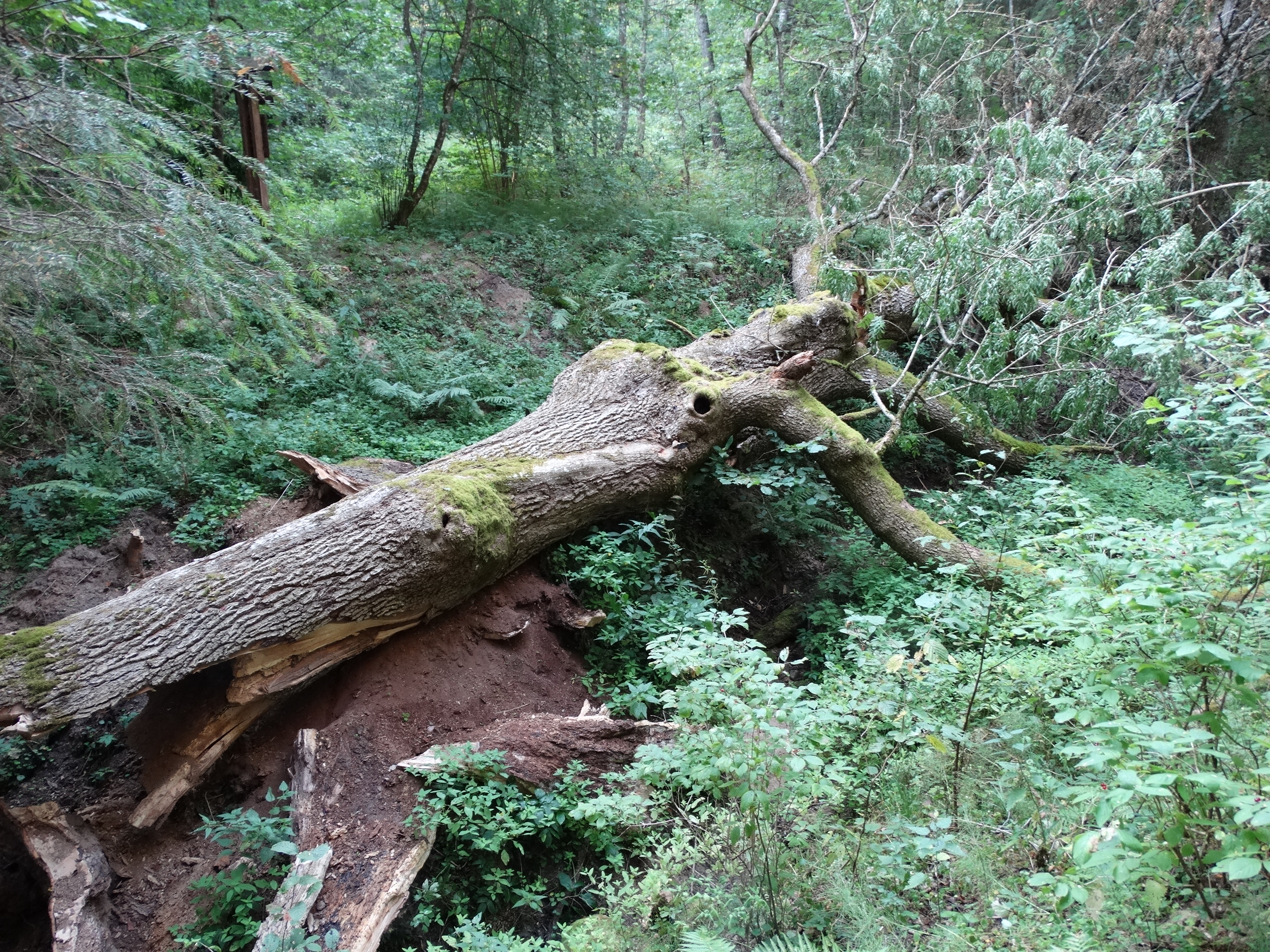 Fraxinus excelsior „Gegutės“ (Cuckoo's ash), Anykščiai District, Lithuania